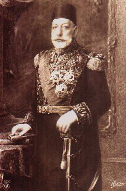 Sultan Mehmed V Reşad